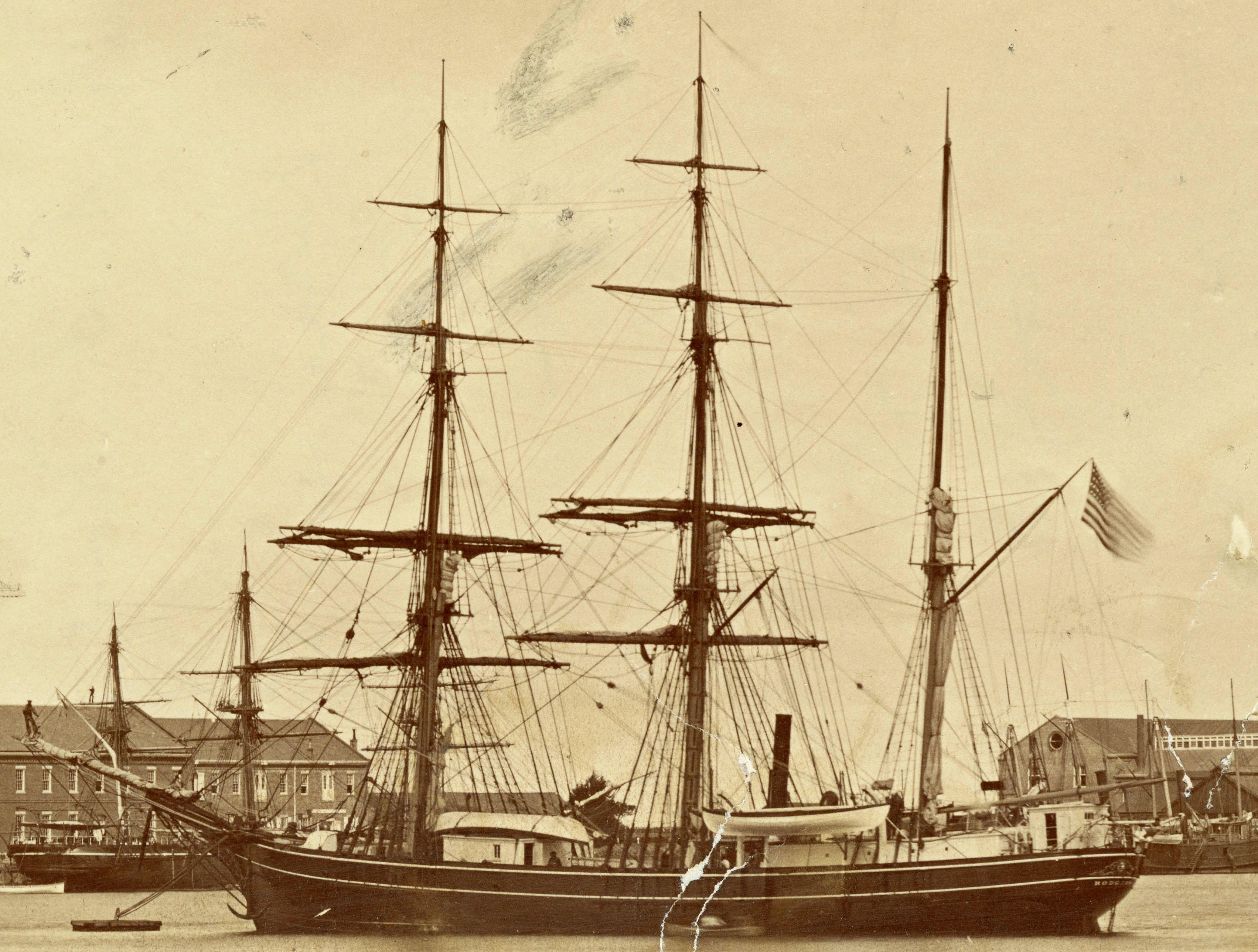 NH 108357: USS Rodgers (1881-1881) In port, prior to her mid-June 1881 departure for the Arctic Ocean. U.S. Naval History and Heritage Command Photograph. On 30 Nov 1881, USS Rodgers, commanded by R. M. Berry, was destroyed by a fire at St. Lawrence Bay on the Siberian coast. Before the fire, Rodgers had charted Wrangel Island, proving conclusively that it was not part of the Asian continent. Rodgers crew eventually departed St. Lawrence Bay on board the whaler North Star in 1882.